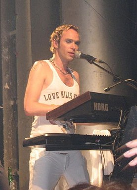 Geir Bratland, former member of Apoptygma Berzerk, live in Madrid.